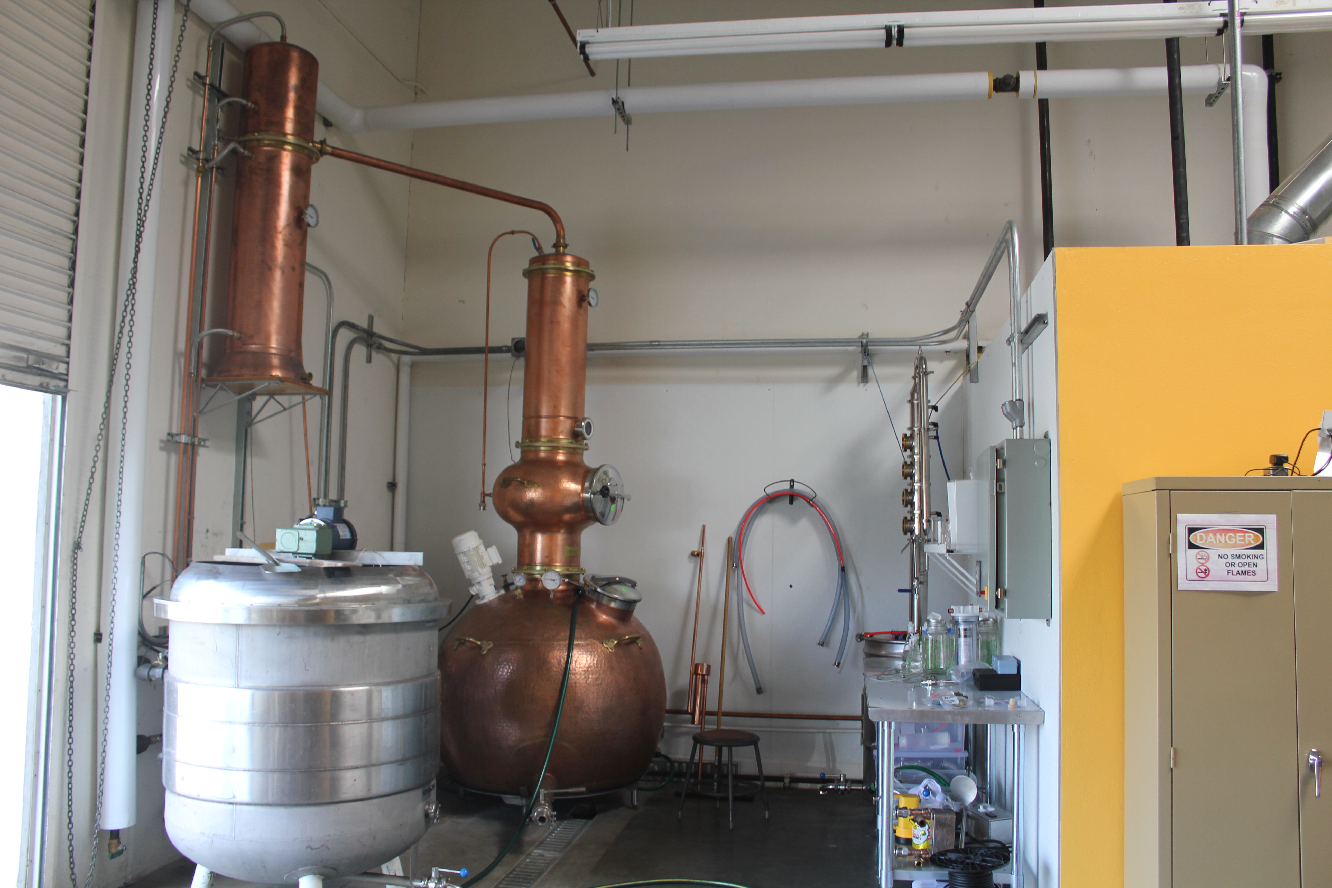 Kettle and still in the still area of Stark Spirits. The main still is a Hoga column still.